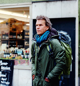 Journalist from Germany